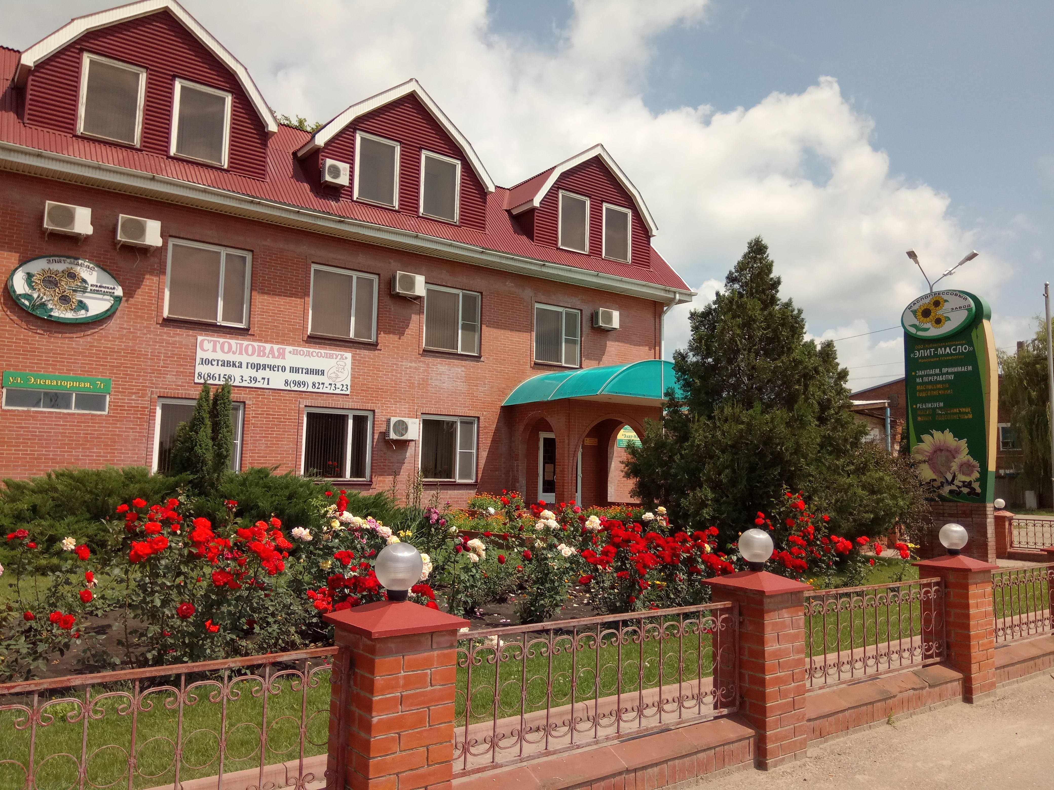 Oil pressing plant in Tbilisskaya stanitsa, Krasnodar Krai, Russia